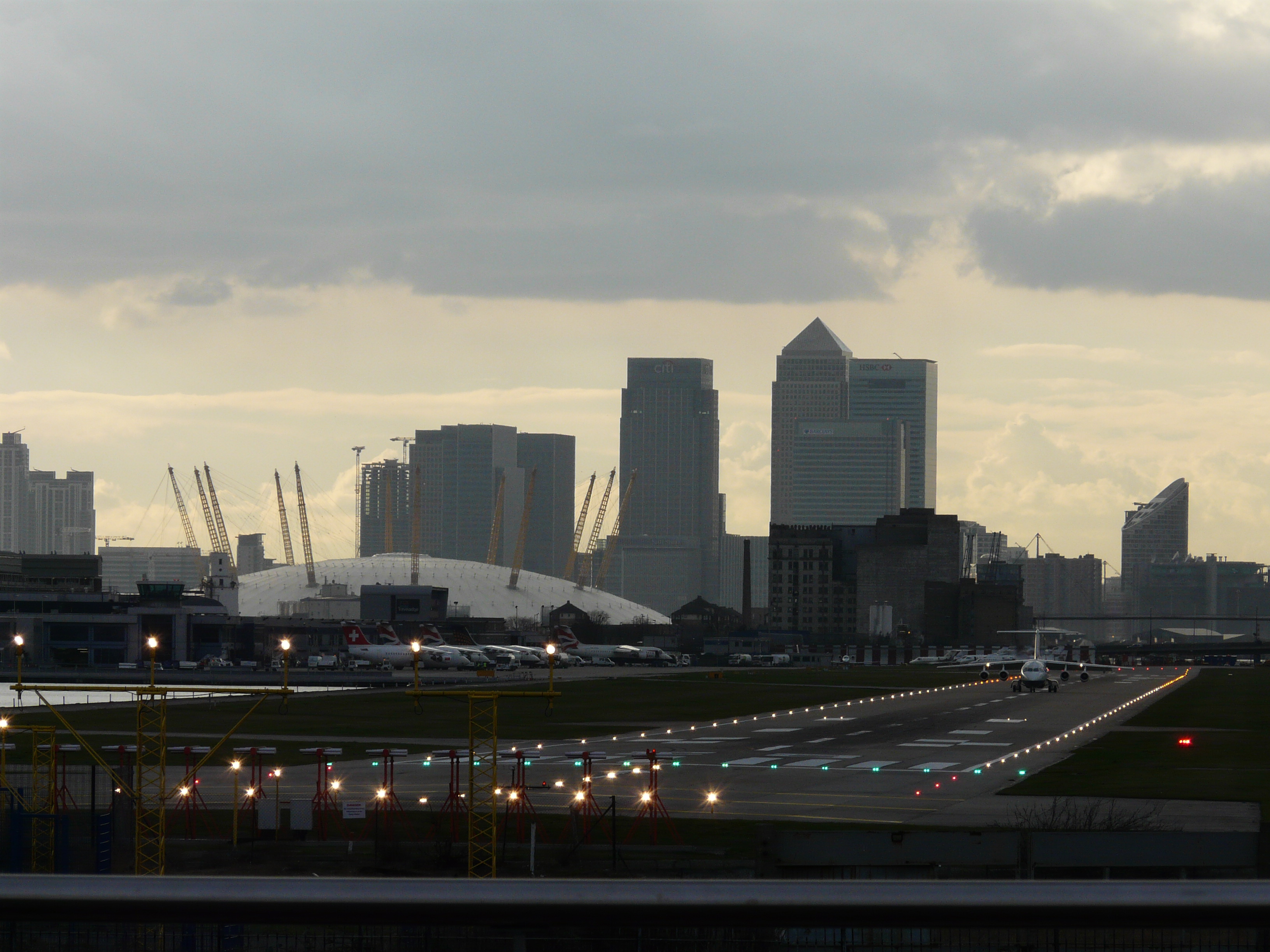 London City Airport with a Avro RJ aircraft